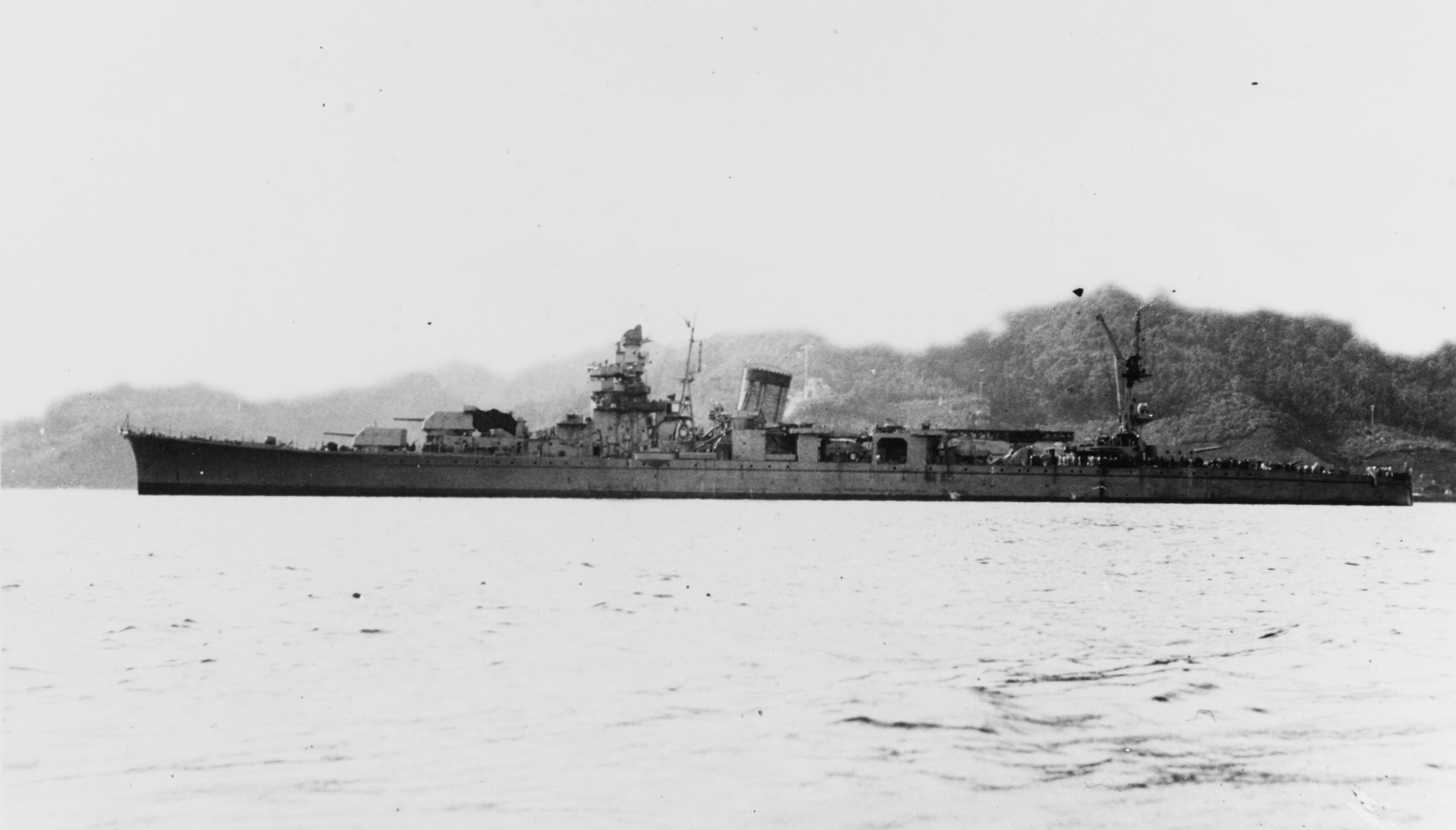 Japanese light cruiser Sakawa prior to commissioning at Sasebo, November 1944.